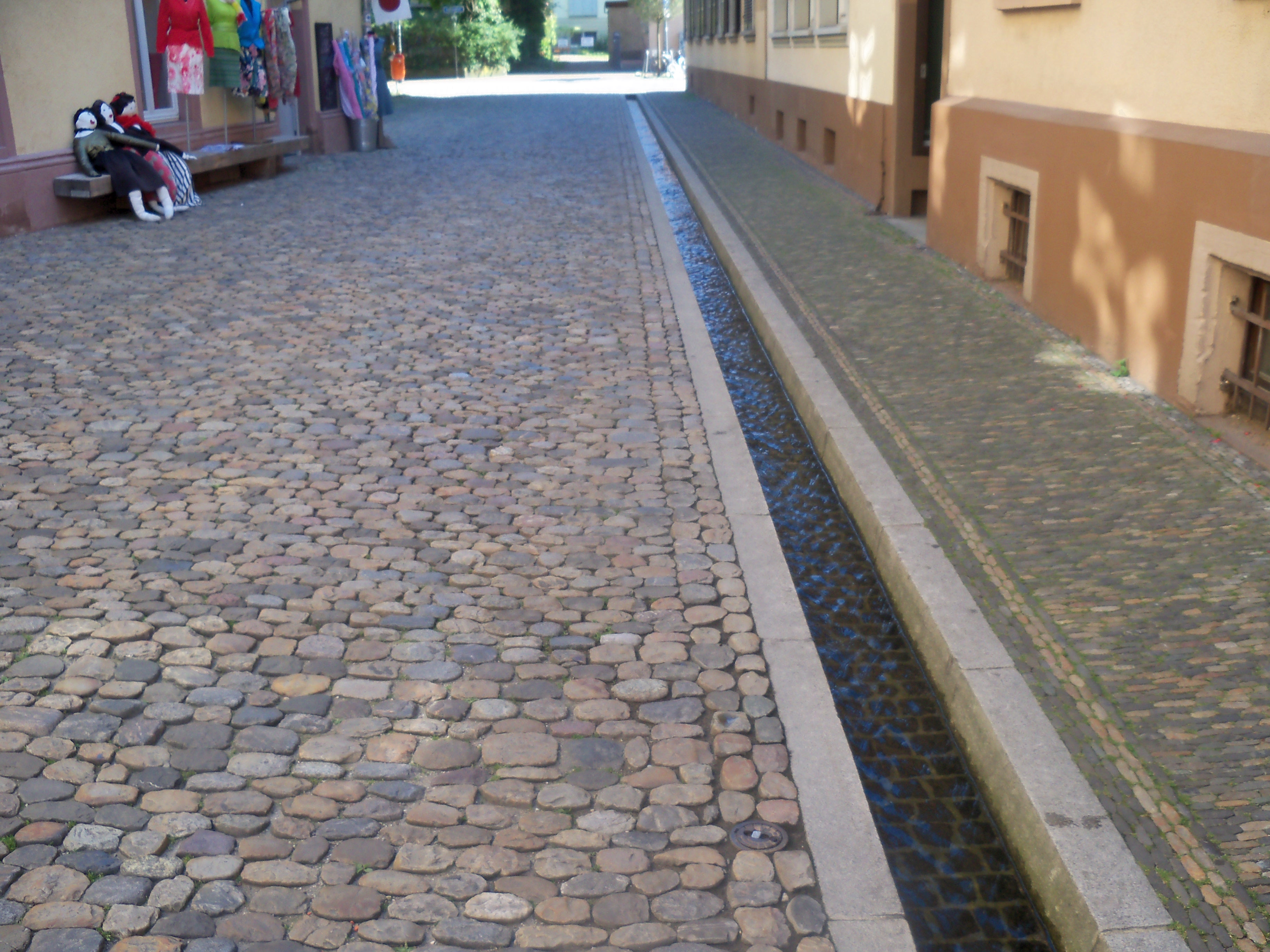 Manmade Rills, known locally as 'Baechle', run through the old-town district of the German city of Freiburg Im Breisgau.